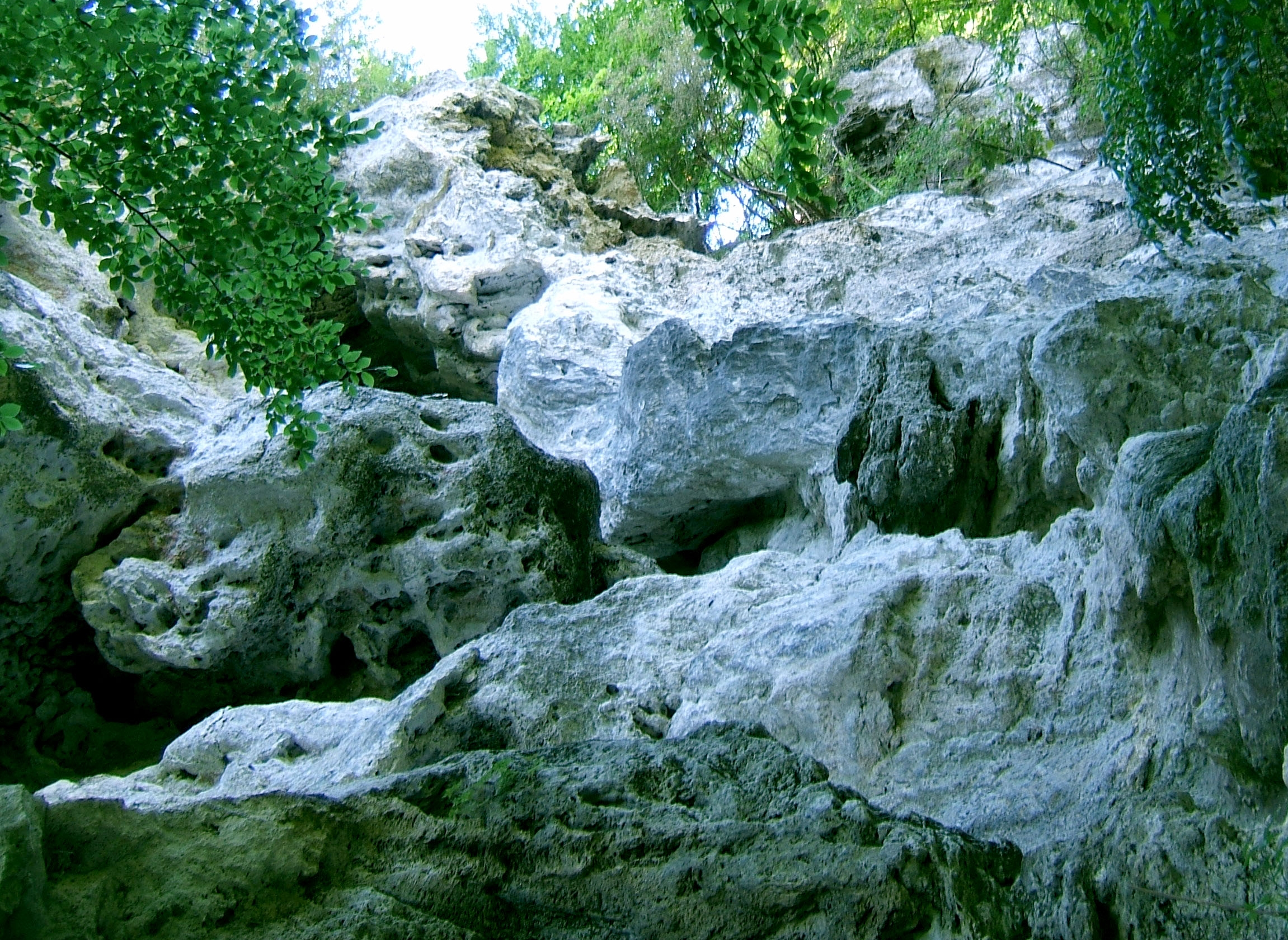 Waterfall near Bad Urach, Germany